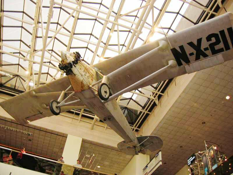 Picture of the Spirit of St. Louis airplane on display at the National Air and Space Museum in Washington, DC. Taken on May 22nd 2004 by Jawed Karim. The airplane is suspended from the ceiling above the main entrance.